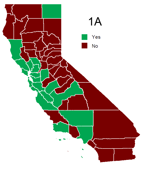 Electoral results by county.